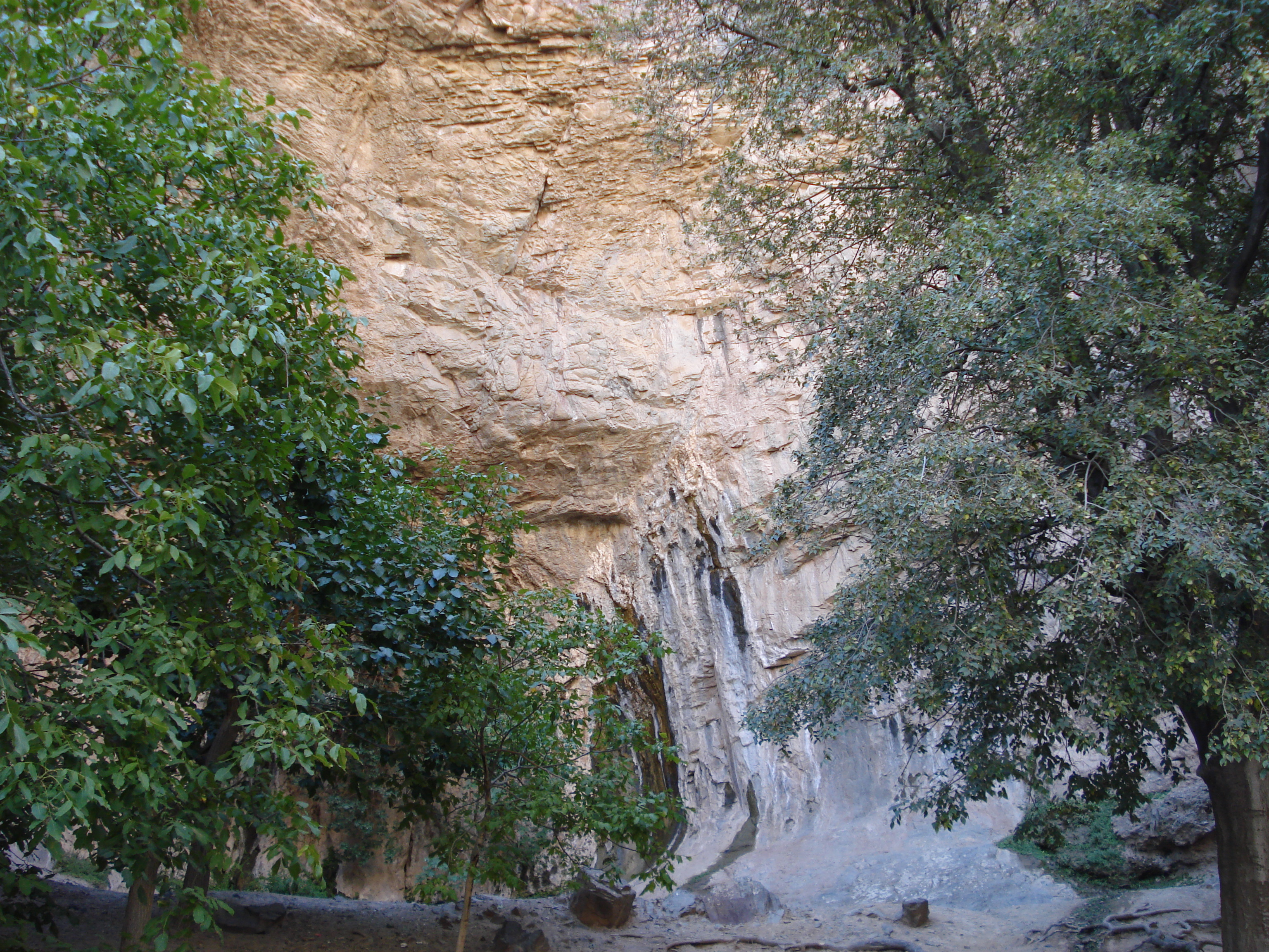 Darb Soufeh. zibad a sassanid castel